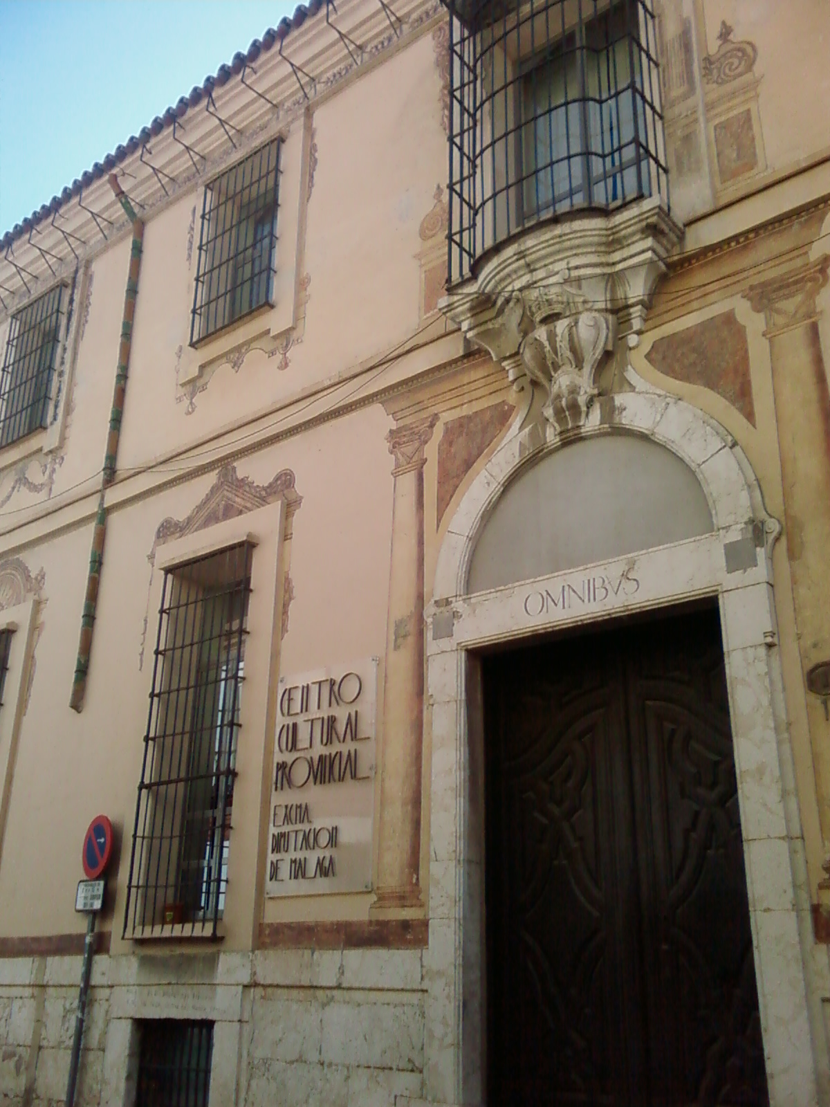 Cultural Centro of the Province of Málaga, Spain (Calle Parras entrance)